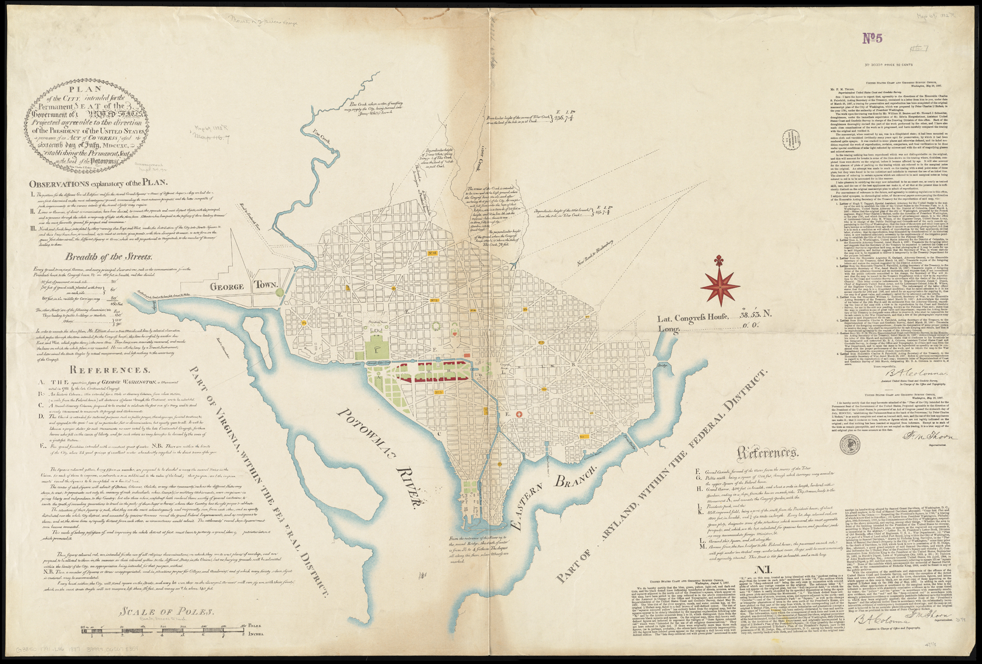 Zoom into this map at . Author: L'Enfant, Pierre Charles Publisher: Boogher, William F. Date: 1791, 1882 Location: Washington (D.C.) Dimensions: 81 x 104 cm. Scale: [ca. 1:15,100] Call Number: G3850 1791 .L46 1882